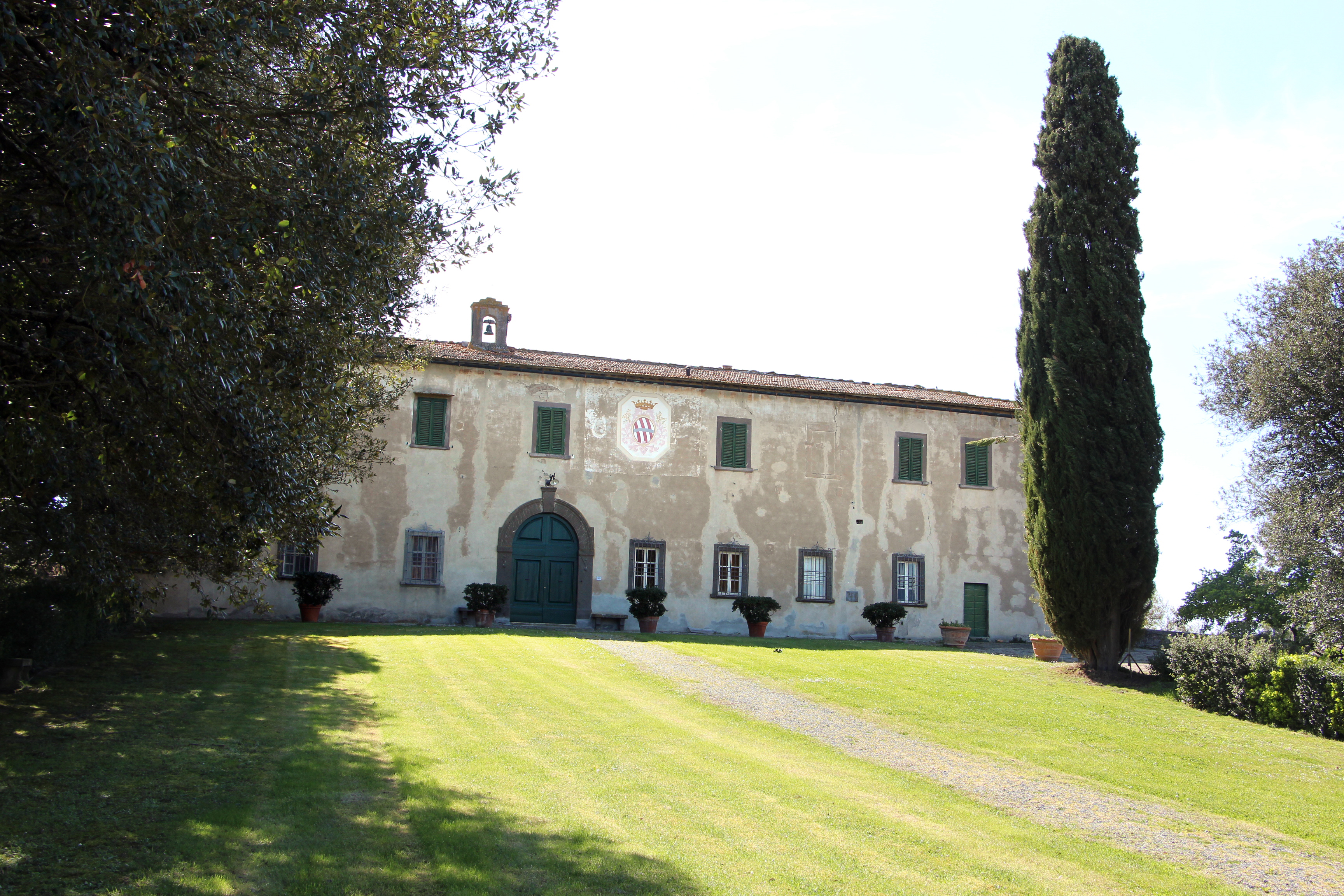 Villa di Spedaletto